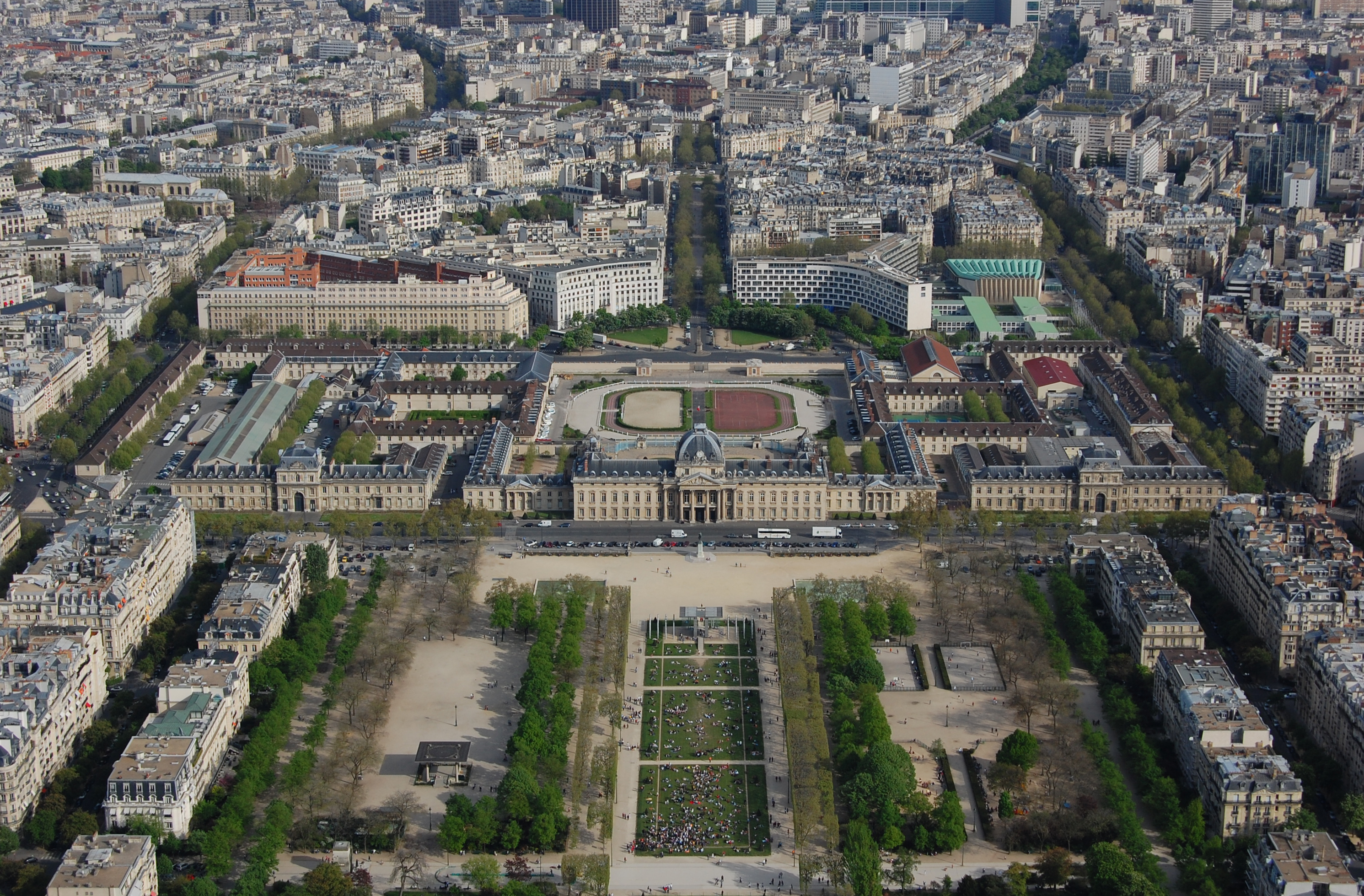 View from the third floor of the Eiffel Tower.